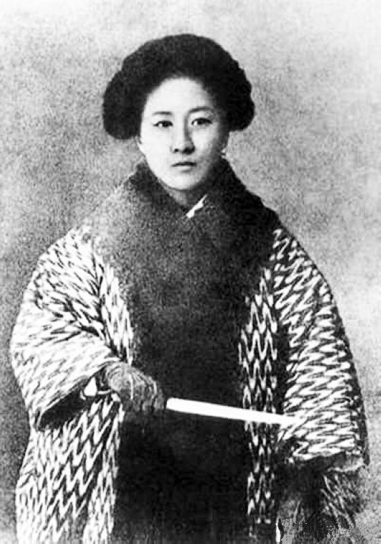 Qiu Jin秋瑾, Chinese revolutionary matyr.